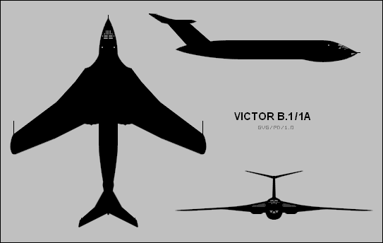 orthographic outline of Handley Page Victor Mark 1